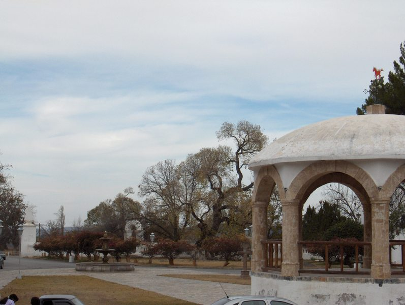 The central courtyard of the Hacienda de San Lorenzo